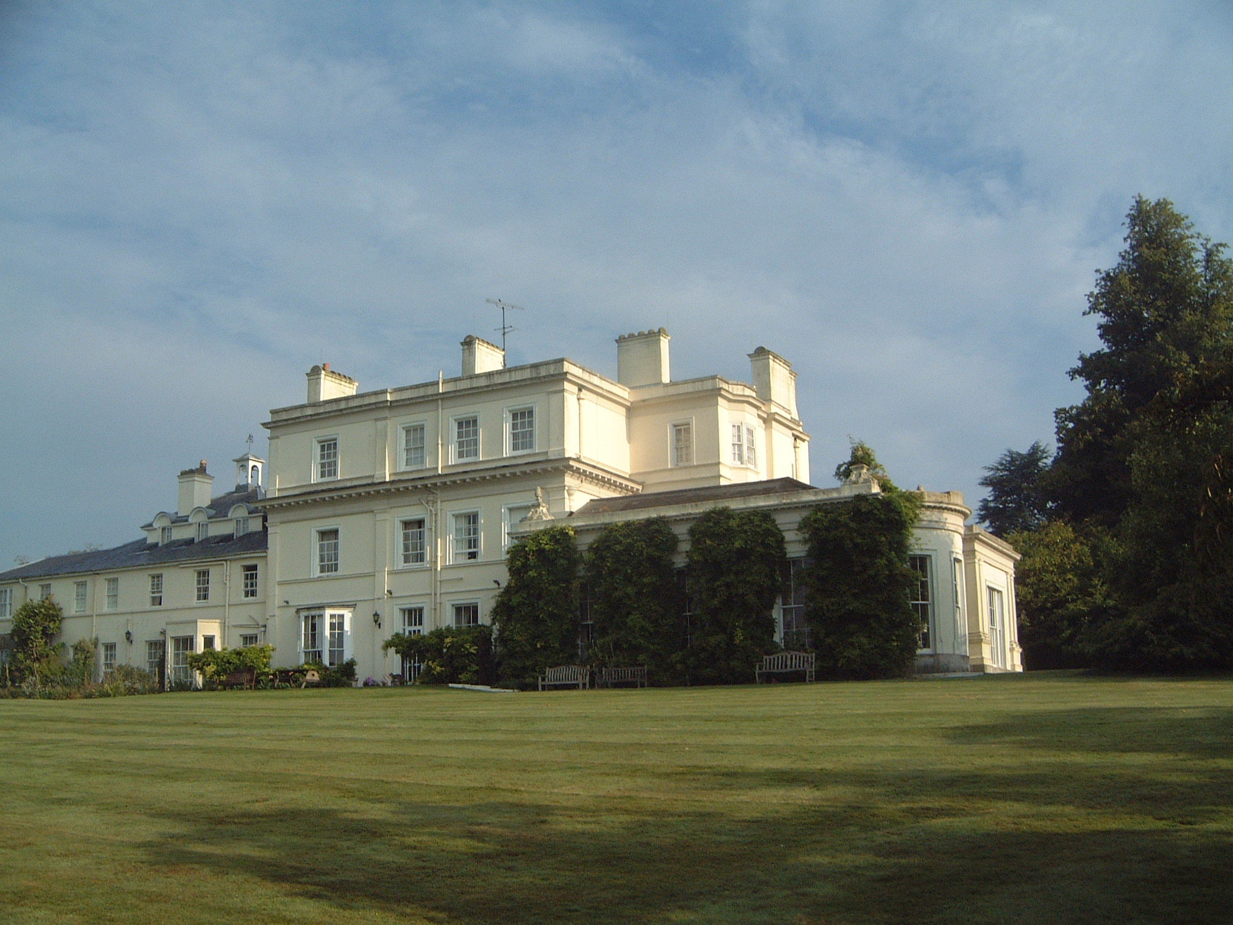 Brantridge Park Manor